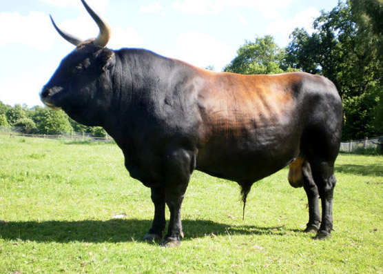 Bos primigenius, aurochs, Skånes djurpark, Höör (Sweden), 2010